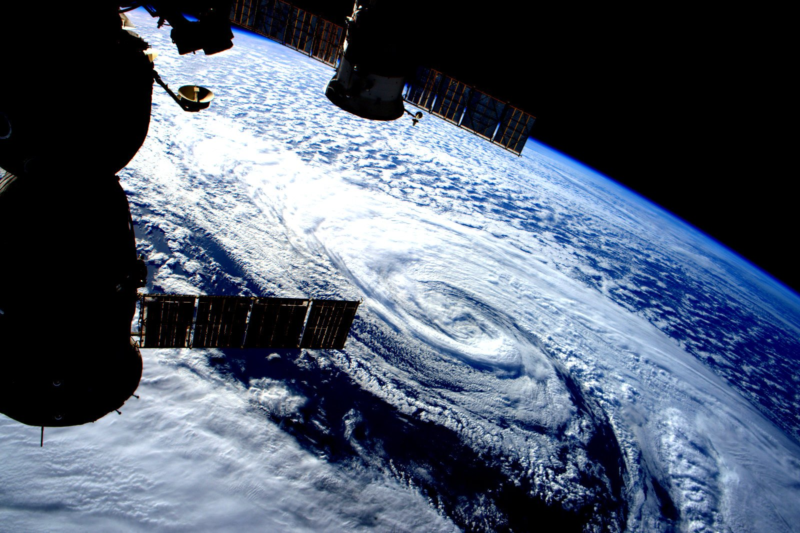 Just joined @Tumblr from space! #Blizzard2016 inspired 1st post: Chasing Storms #YearInSpace